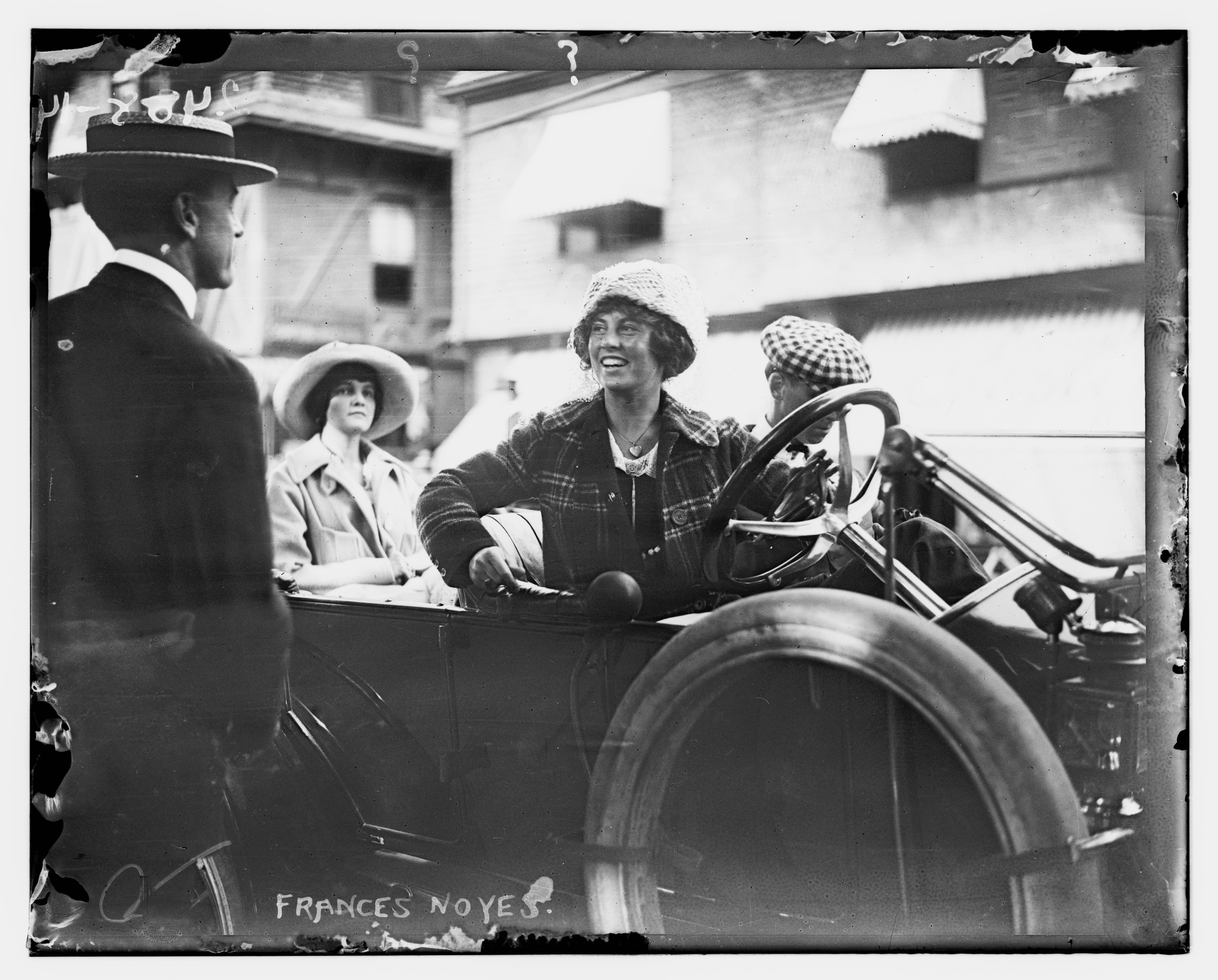 Title: Frances Noyes Abstract/medium: 1 negative : glass ; 5 x 7 in. or smaller.